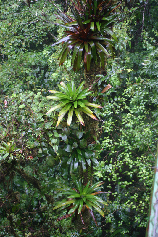 Werauhia spec. in Monteverde, Costa Rica. Author: Cody Hinchliff, 2004.